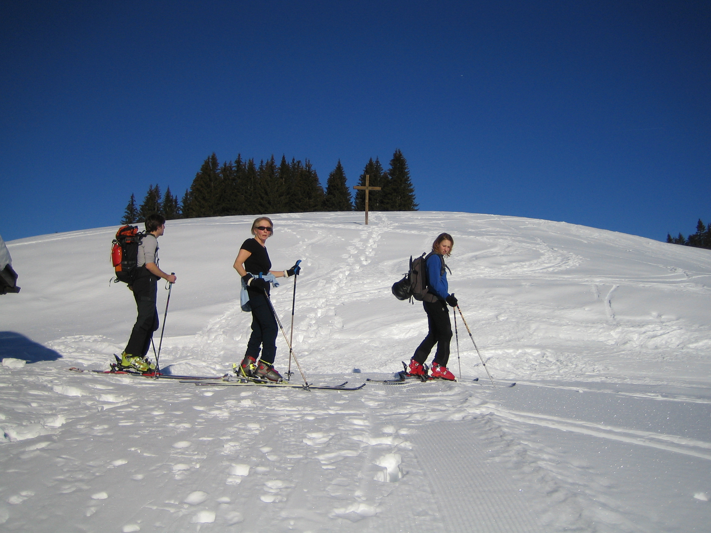 description of skitouring